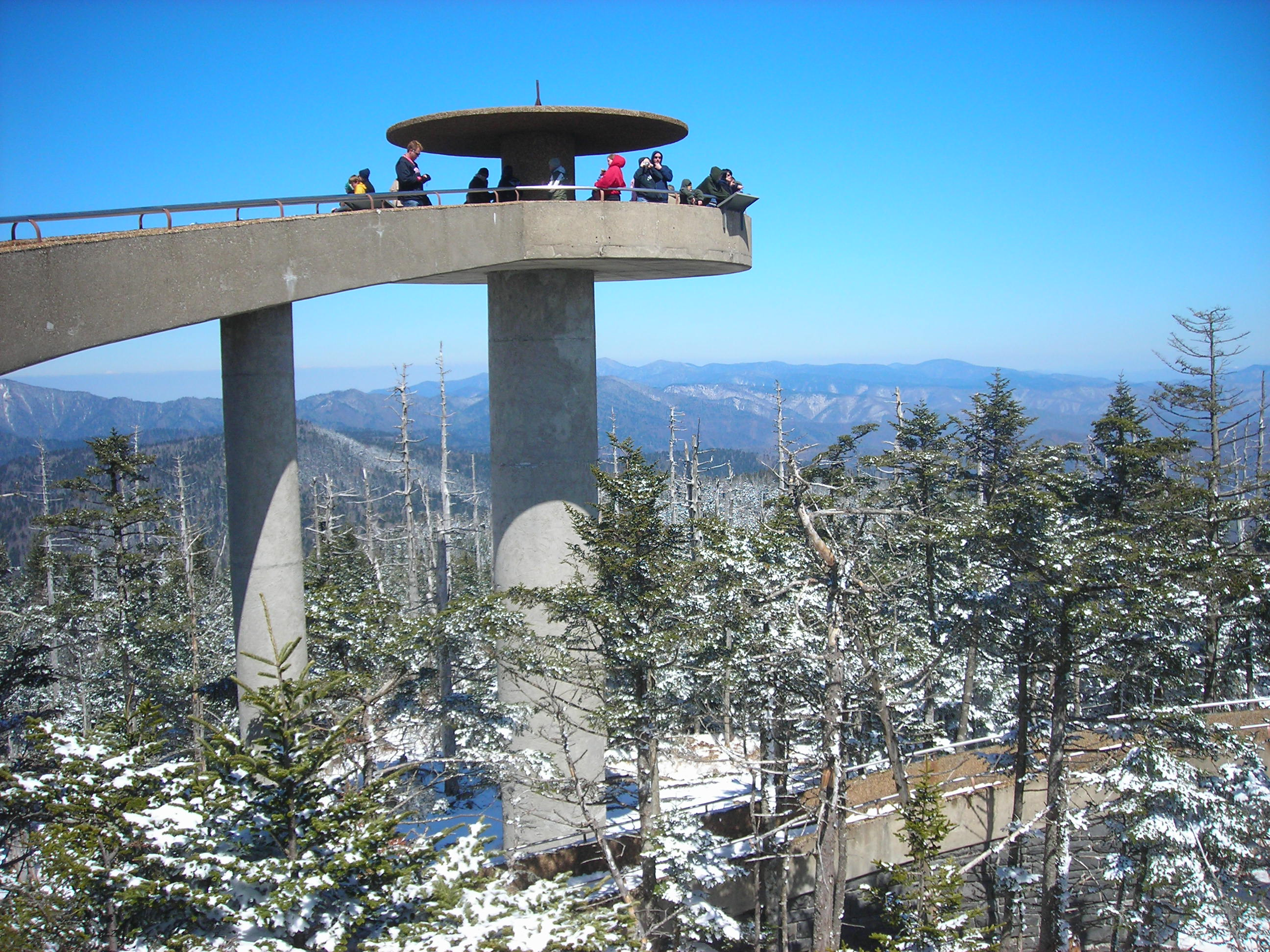 The Clingman's Dome Observation Tower rises 50 feet (15 m) from the summit of Clingman's Dome, the highest point both in the state of Tennessee and along the Appalachian Trail, in Great Smoky Mountains National Park.